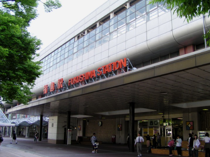 Fukushima Station in Fukushima Prefecture, Japan